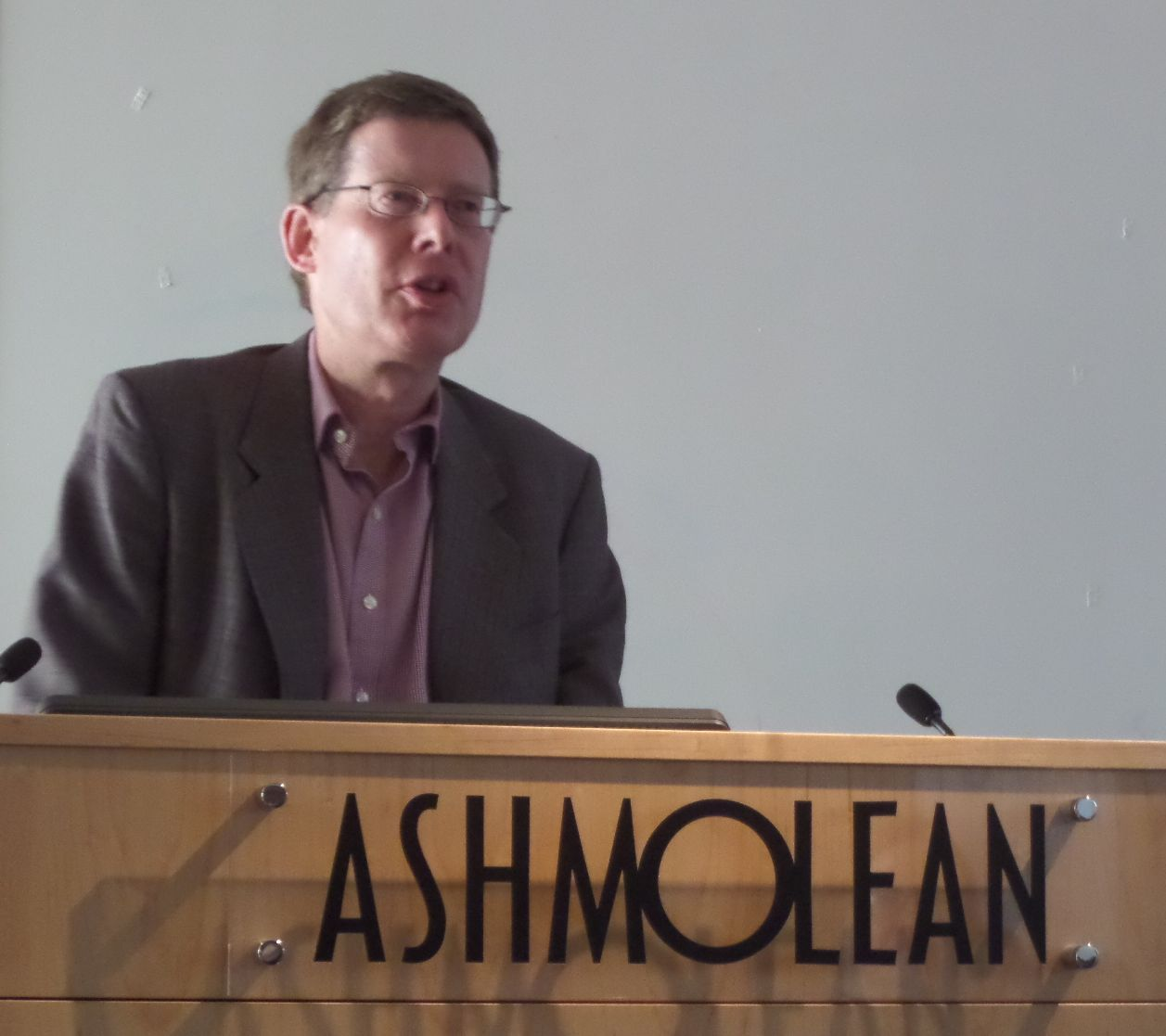 The writer Andrew Robinson delivering a talk on the history of India at the Ashmolean Museum, Oxford, England, on 10 May 2014.